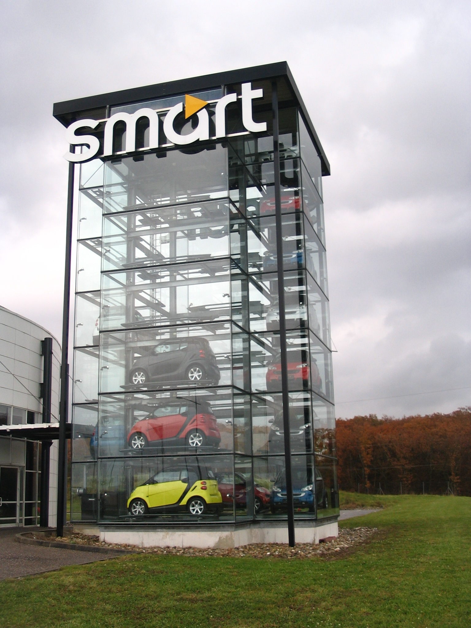 Smart Tower in smartville, Hambach, France